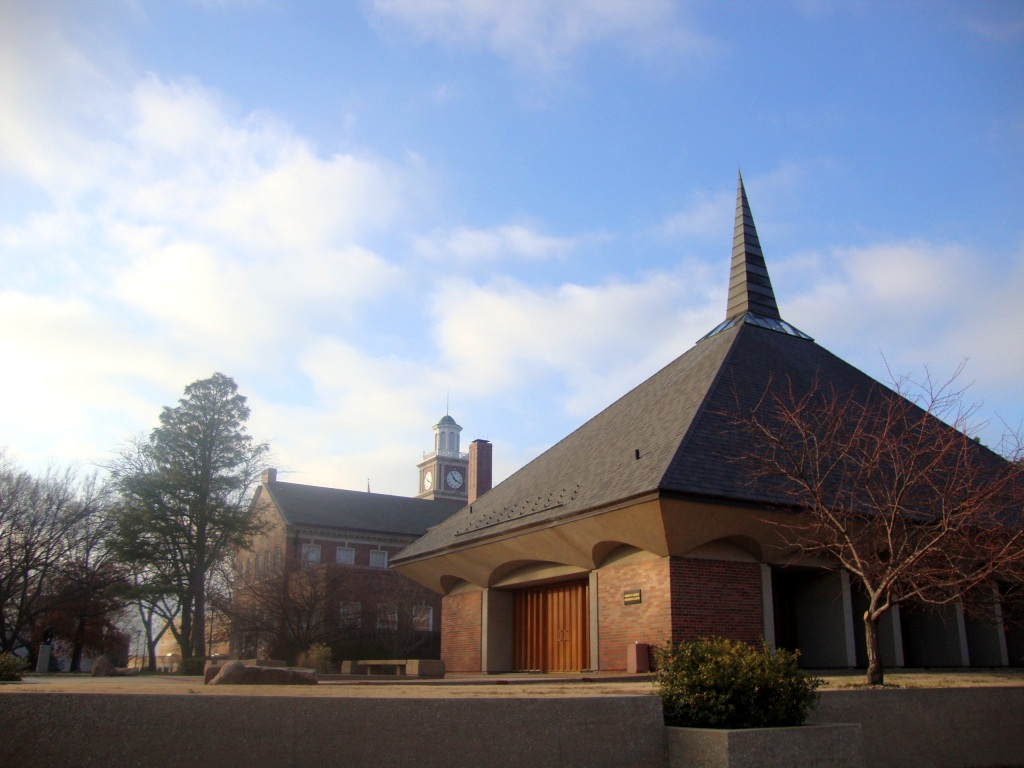 This is Wichita State University Chapel. Pictures taken in the afternoon.